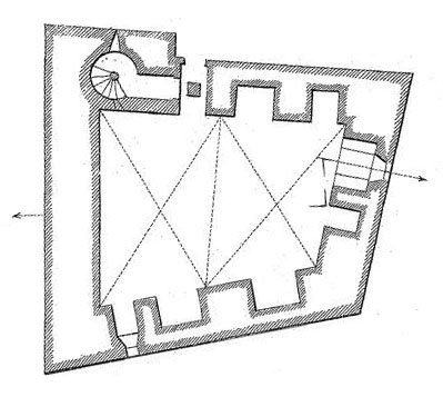 Ground-floor plan of the Tour Philippe-le-Bel in Villeneuve-lès-Avignon. North is at the top. The arrows show the position of the section shown in Fig 5